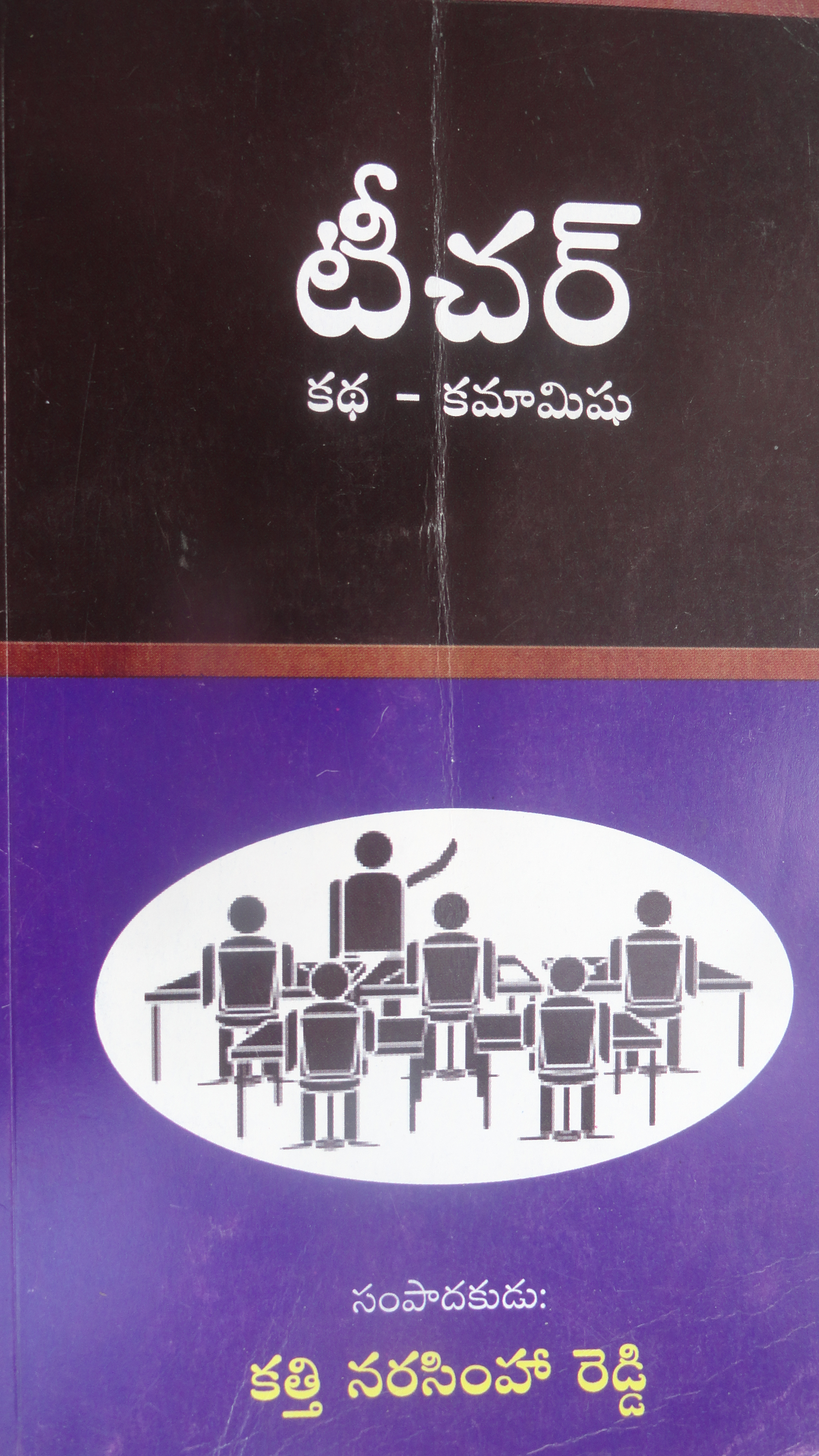 దోసకాయ ముక్కలు